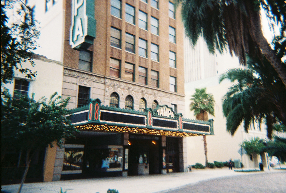 Tampa Theatre and Office Building, in Tampa, Florida